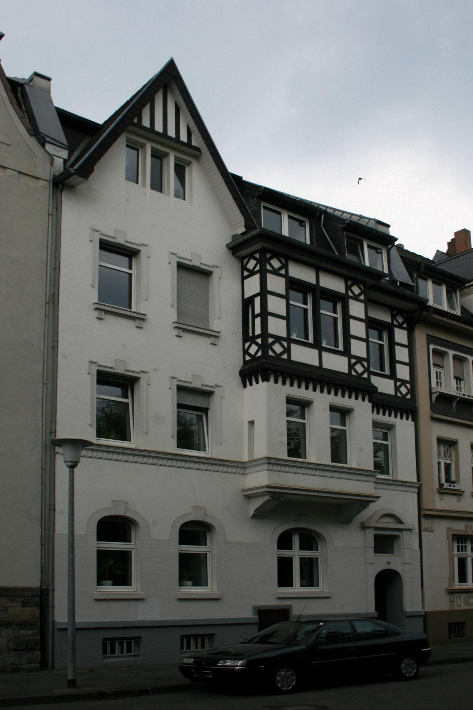 Cultural heritage monument No. B 142 in Mönchengladbach